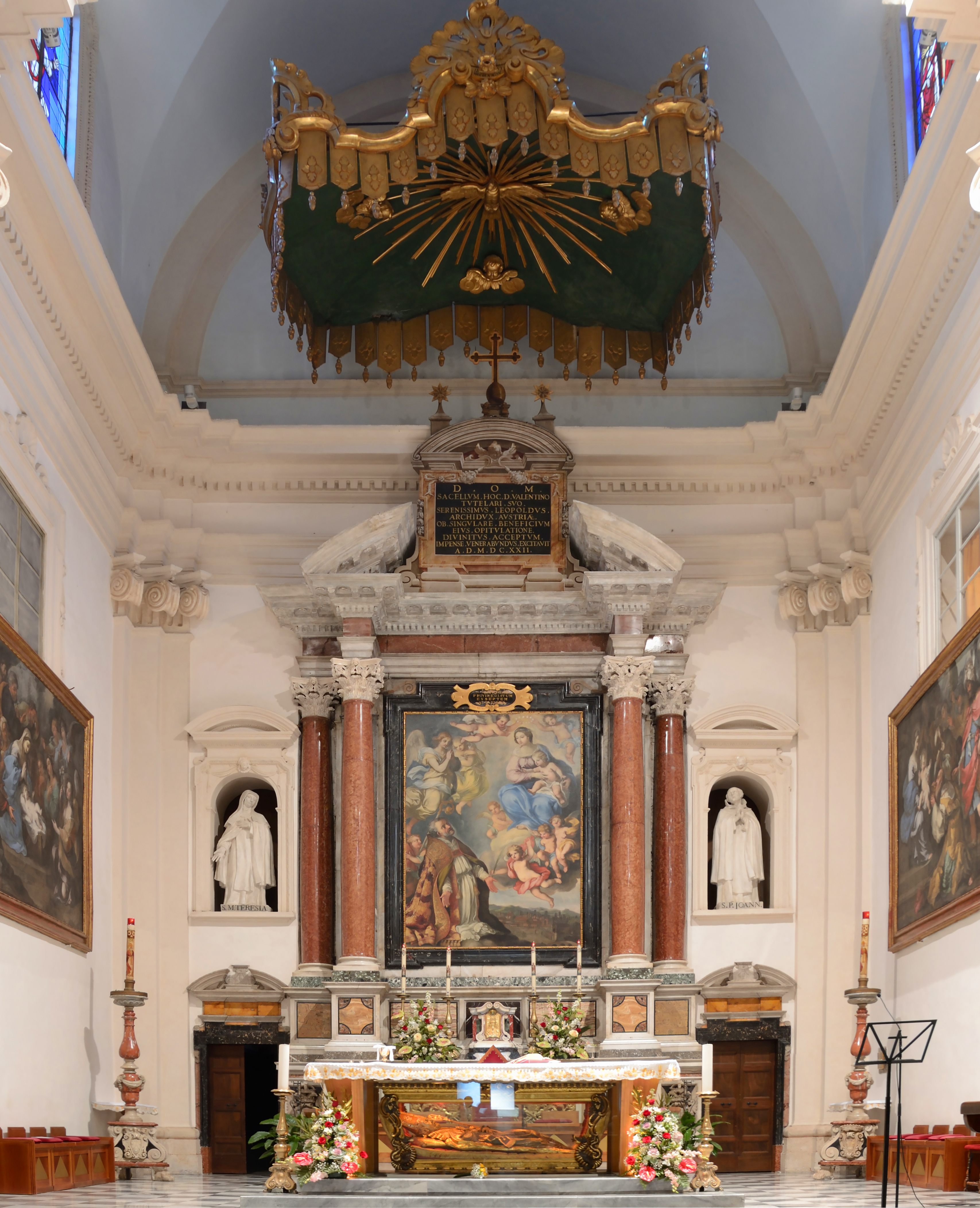 Altar of the Church of St. Valentine in Terni with the saint's tomb